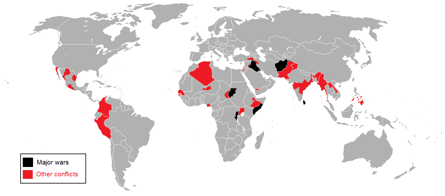 World Conflicts as of this month. Update of last month's picture (see List of ongoing conflicts 2008-current by world map) to correspond to ongoing conflicts. Feel free to update if it doesn't correspond to that article.